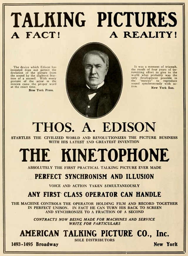 Advertisement for Thomas Edison's "Kinetophone", his early synchronized system for presenting sound with projected films; published in The Moving Picture World (New York, N.Y.), January 25, 1913, p. 372; ad headed "TALKING PICTURES / A Fact! / A Reality!"; includes oval-framed portrait of inventor Thomas A. Edison; American Talking Picture Company, New York, N.Y.